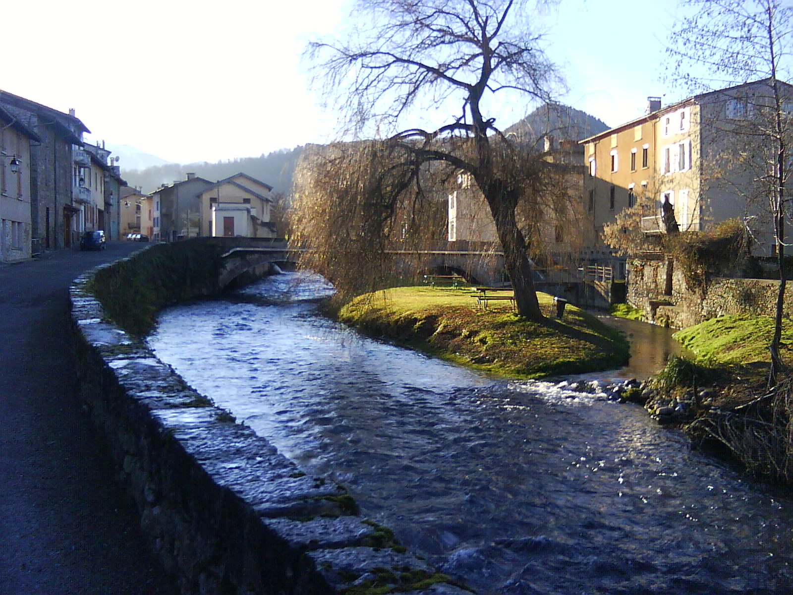 Bélesta (Ariège, France): Delalaygue Bridge on the river Hers-Vif